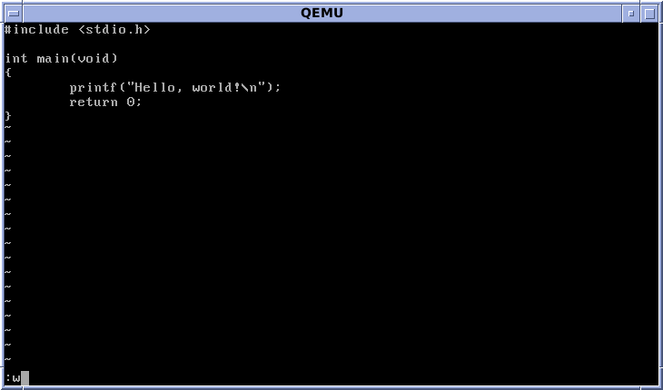 Editing an ANSI C "Hello World" program in the vi editor in NetBSD 6.1.